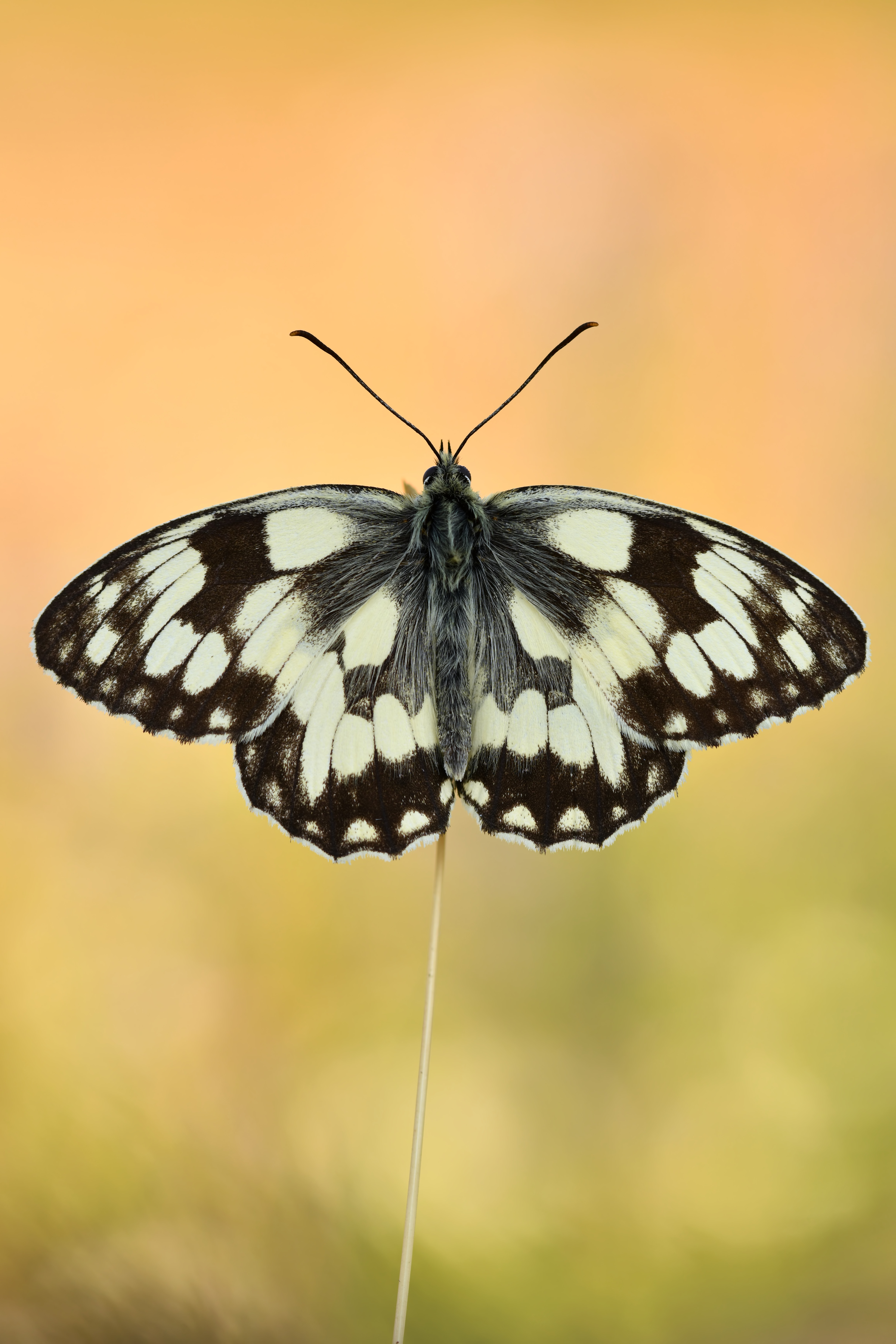 Melanargia galathea (marbled white). Photographed on a small meadow in the Elbe-Brandenburg River Landscape Biosphere Reserve near Rühstädt